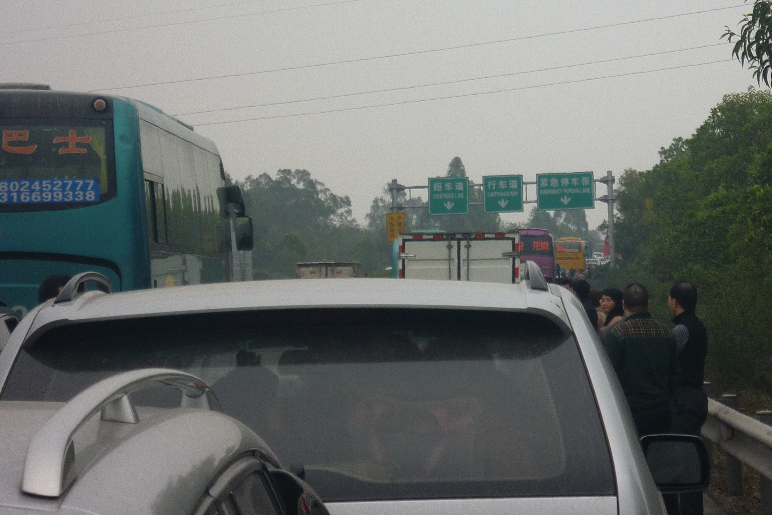 Traffic congestion on G15 highway when Chunyun in China. People got of the car to breathe some fresh air. Some driver drive to the emergency Lane to avoid congestion but all lanes were blocked by the traffic accidents, they blocked the emergency vehicles and were fined.